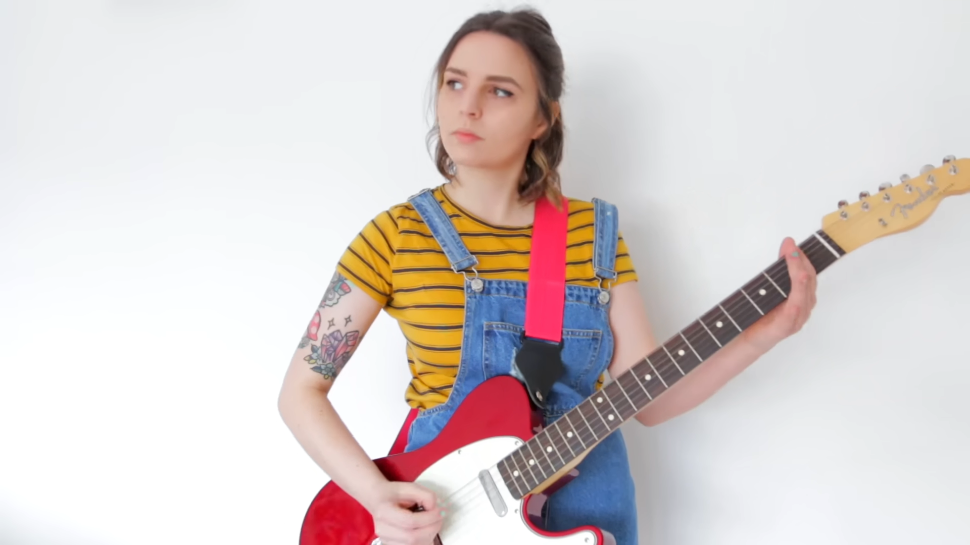 Emma Blackery in 2018.